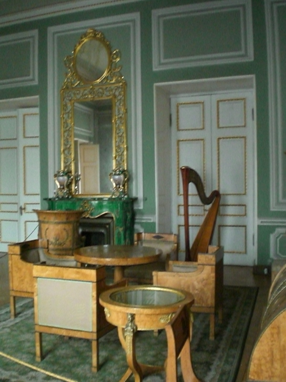 the Yusupov Palace on Moika